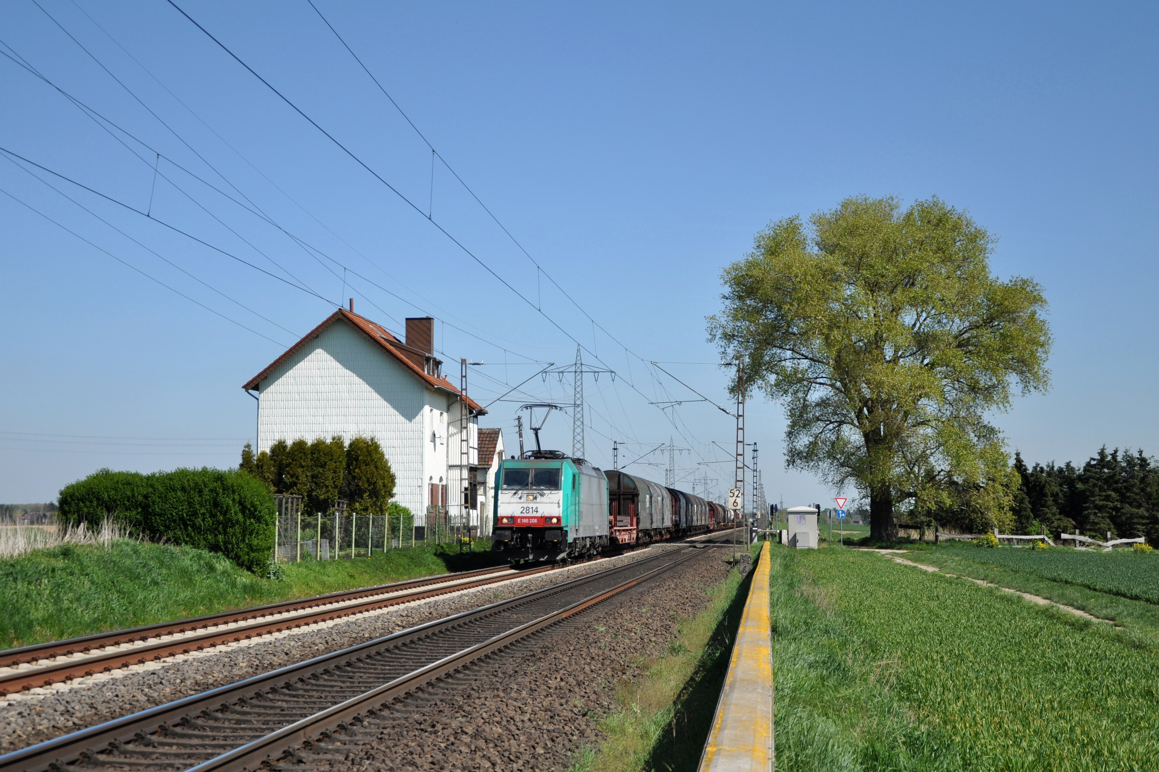 2814 / Cobra // Herrath / April 2014